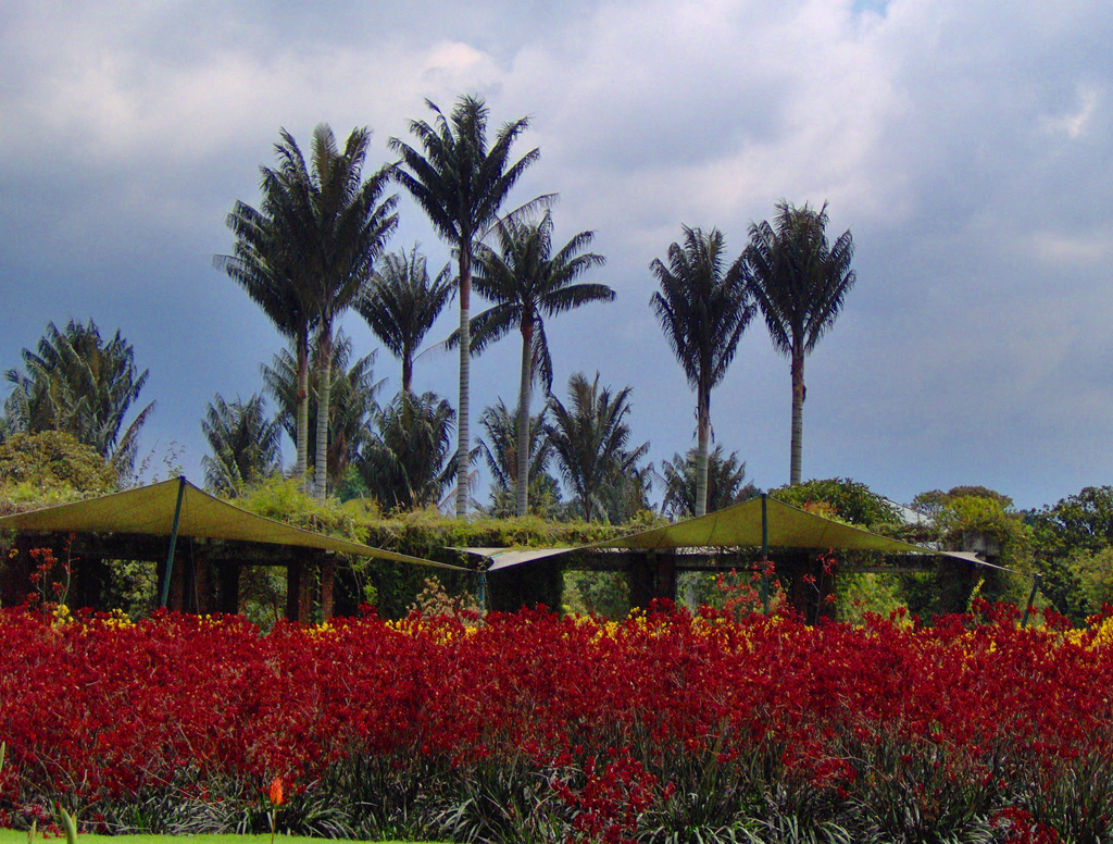 Flowers and Wax Palms.(es) Palma de cera. (en) Wax palm.